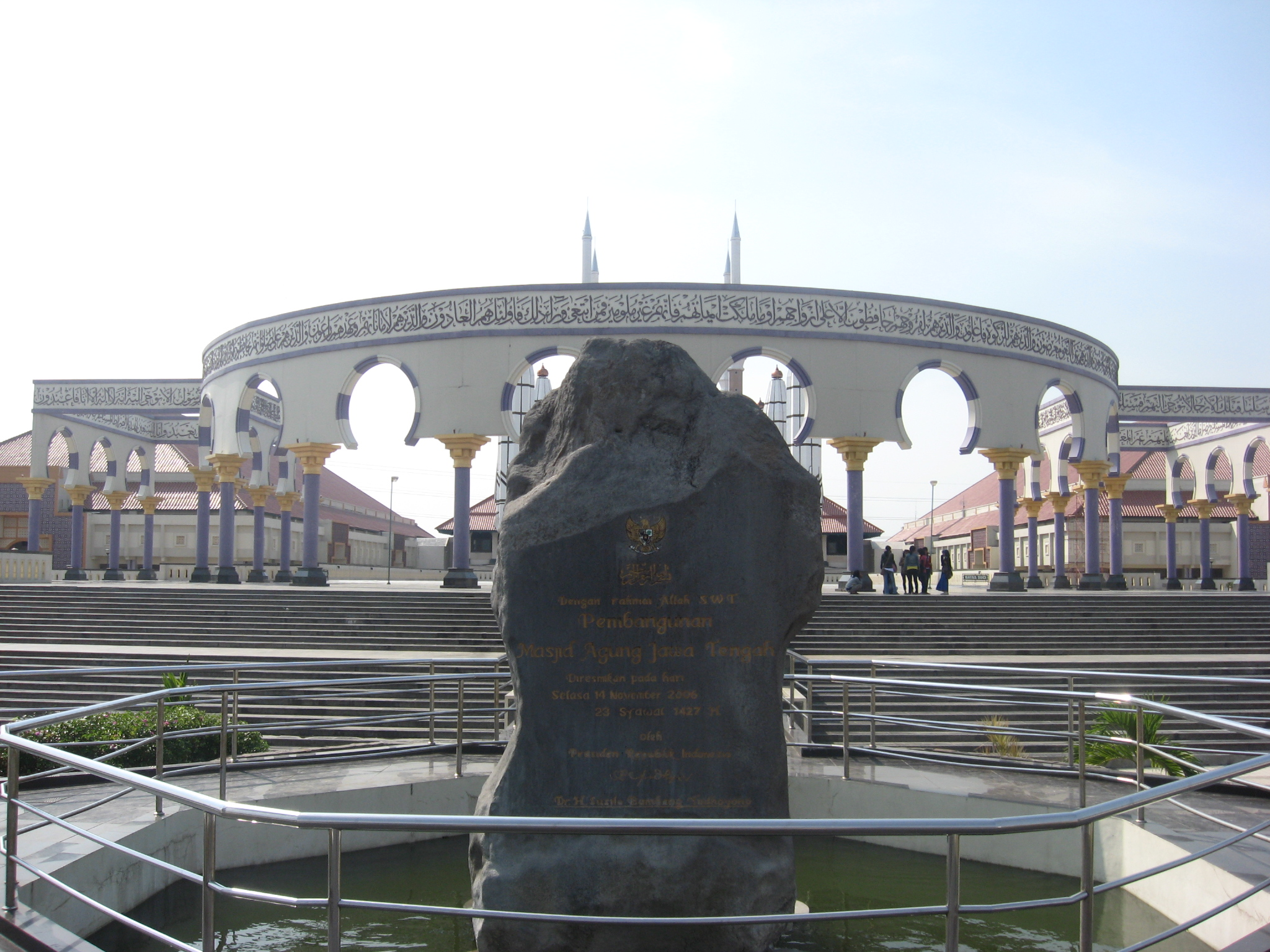 The prasasti (inscription) at Masjid Agung Central Java.